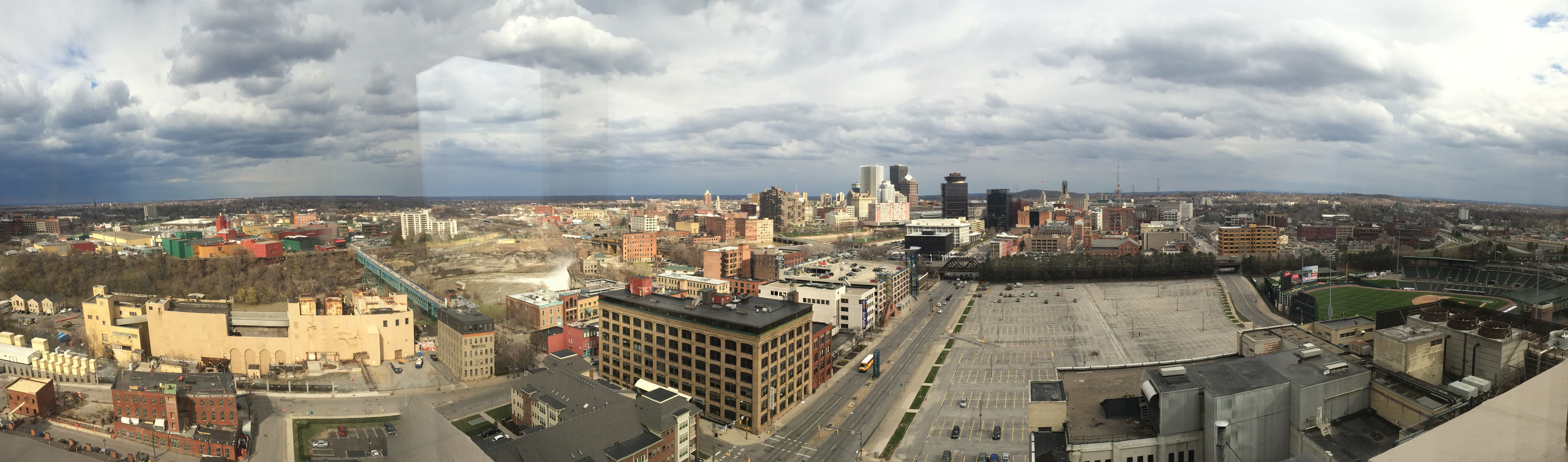 South and Eastern View from Kodak Office in Rochester